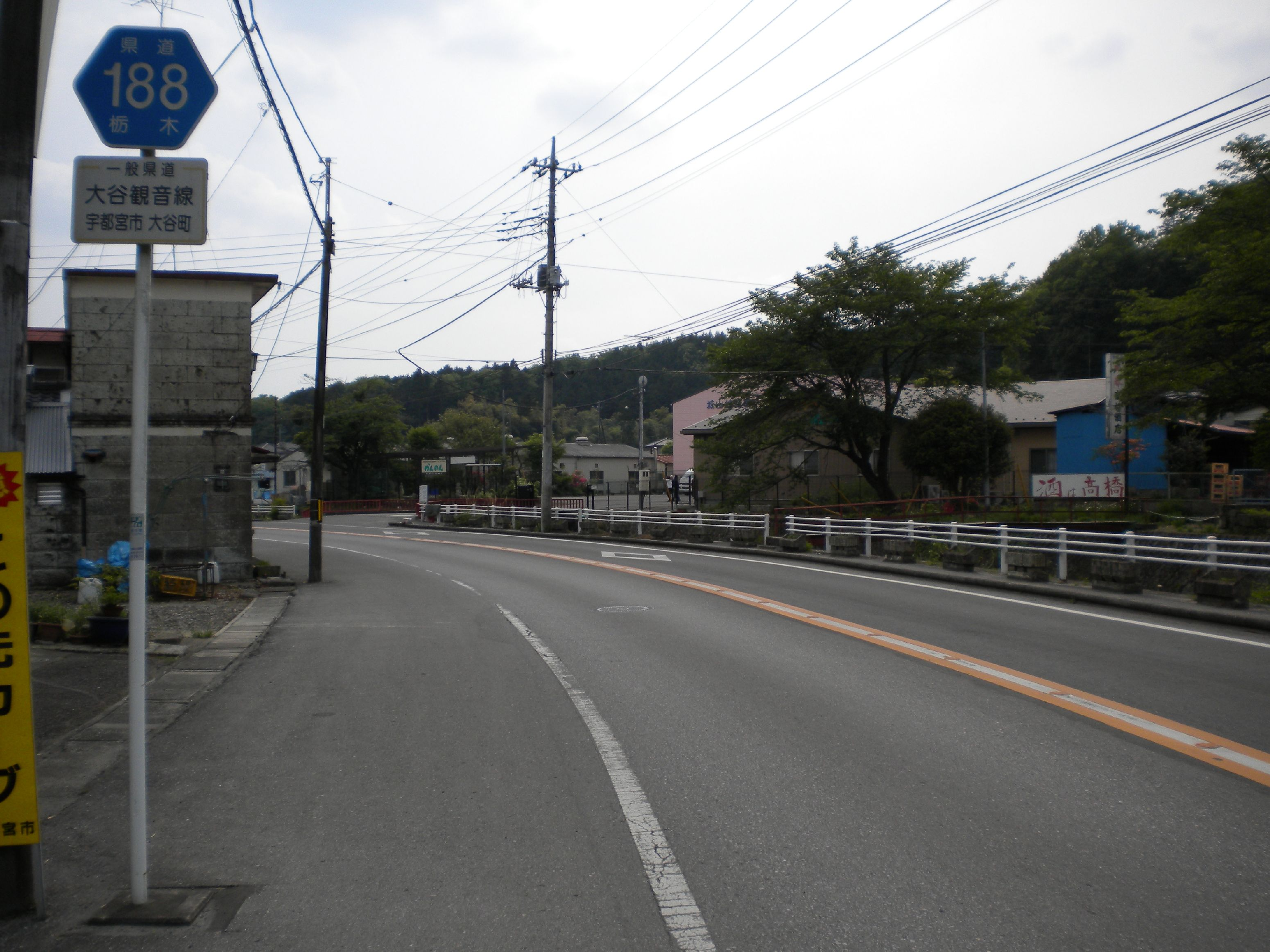 Tochigi prefectural road No.188 on Utsunomiya city